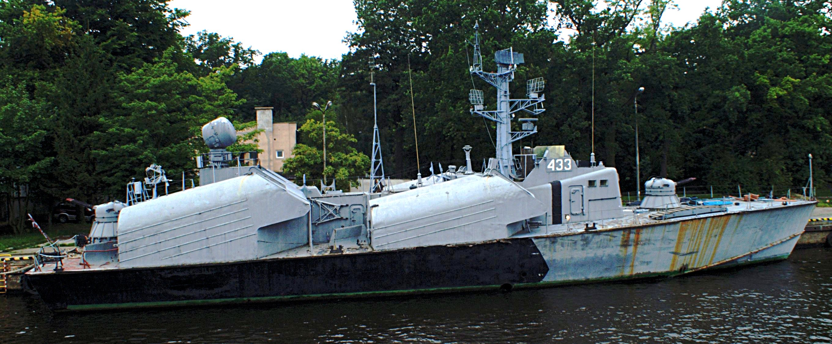 ORP Władysławowo w Kołobrzegu